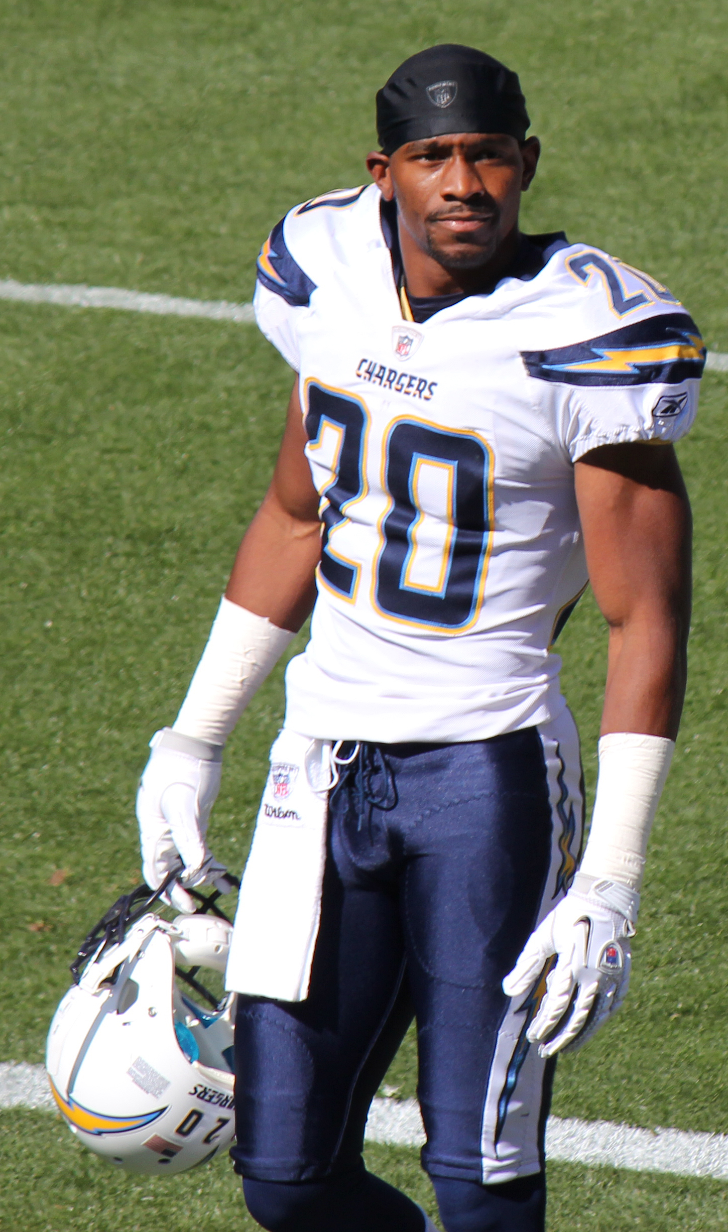 Antoine Cason, a player on the National Football League.